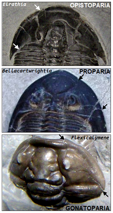 Examples of facial suture types in 3 trilobite genera. Elrathia (Top) Bellacartwrightia (middle); Flexicalymene (bottom)